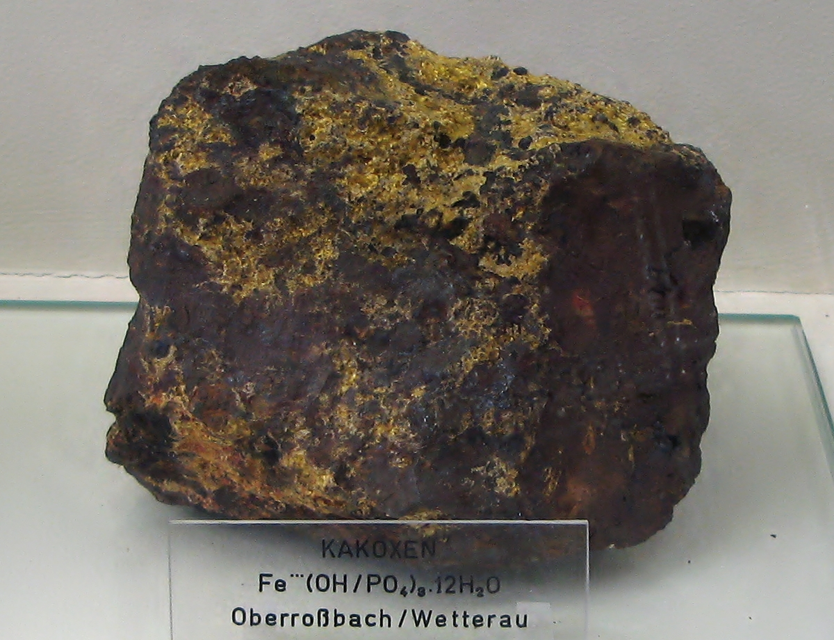 Cacoxenite - Locality: Oberroßbach, Wetterau (Germany) - Exposed in the Mineralogical Museum, Bonn, Germany